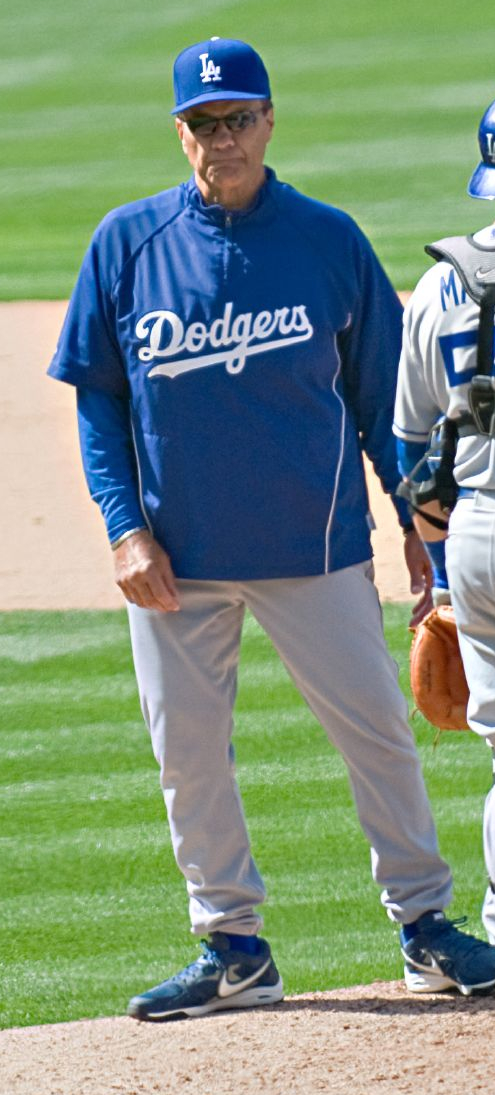 Joe Torre